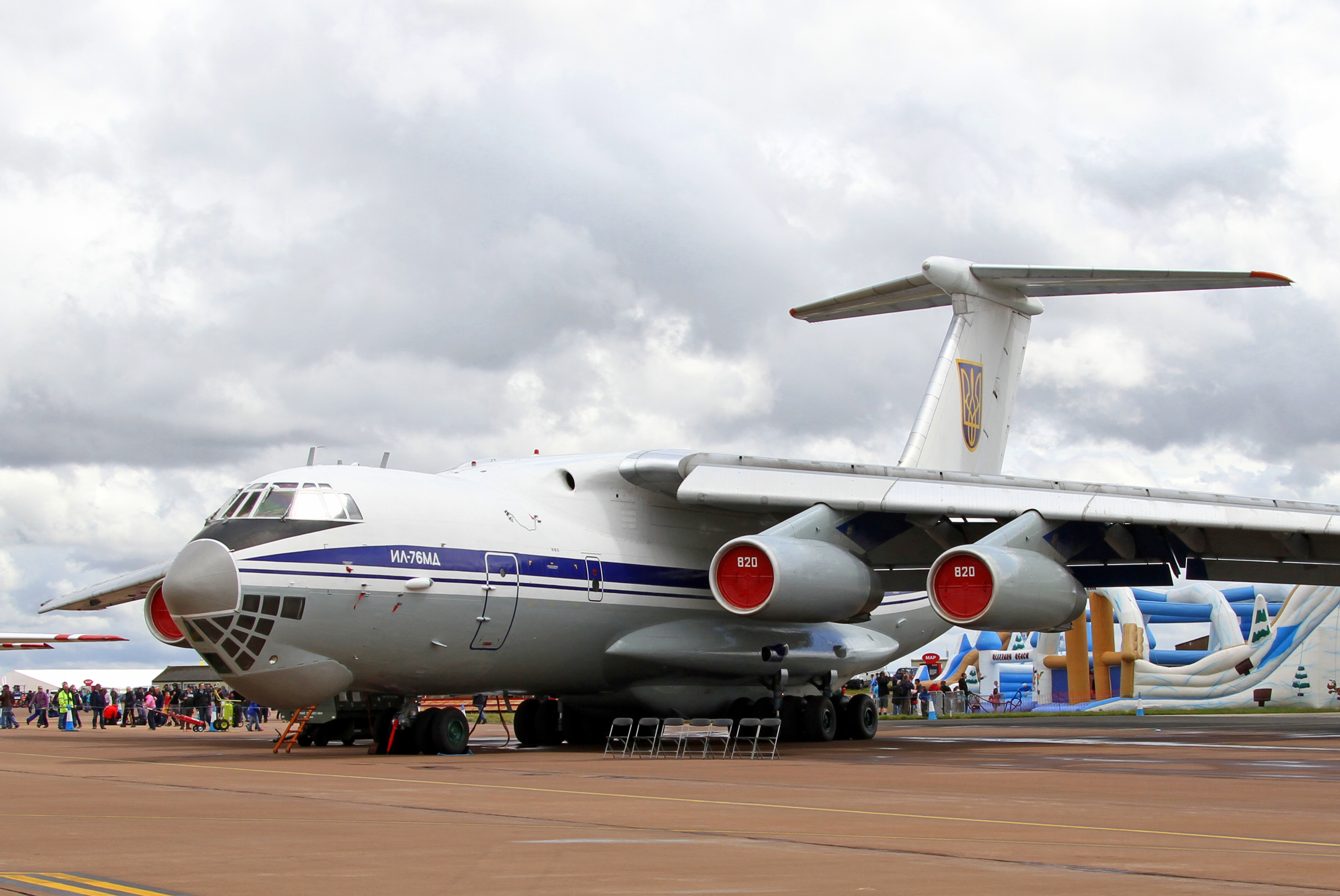 A Ukrainian Air Force Ilyushin IL-76 at Fairford RIAT 2011